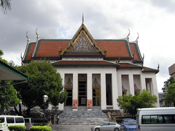 Bowornsutthawas